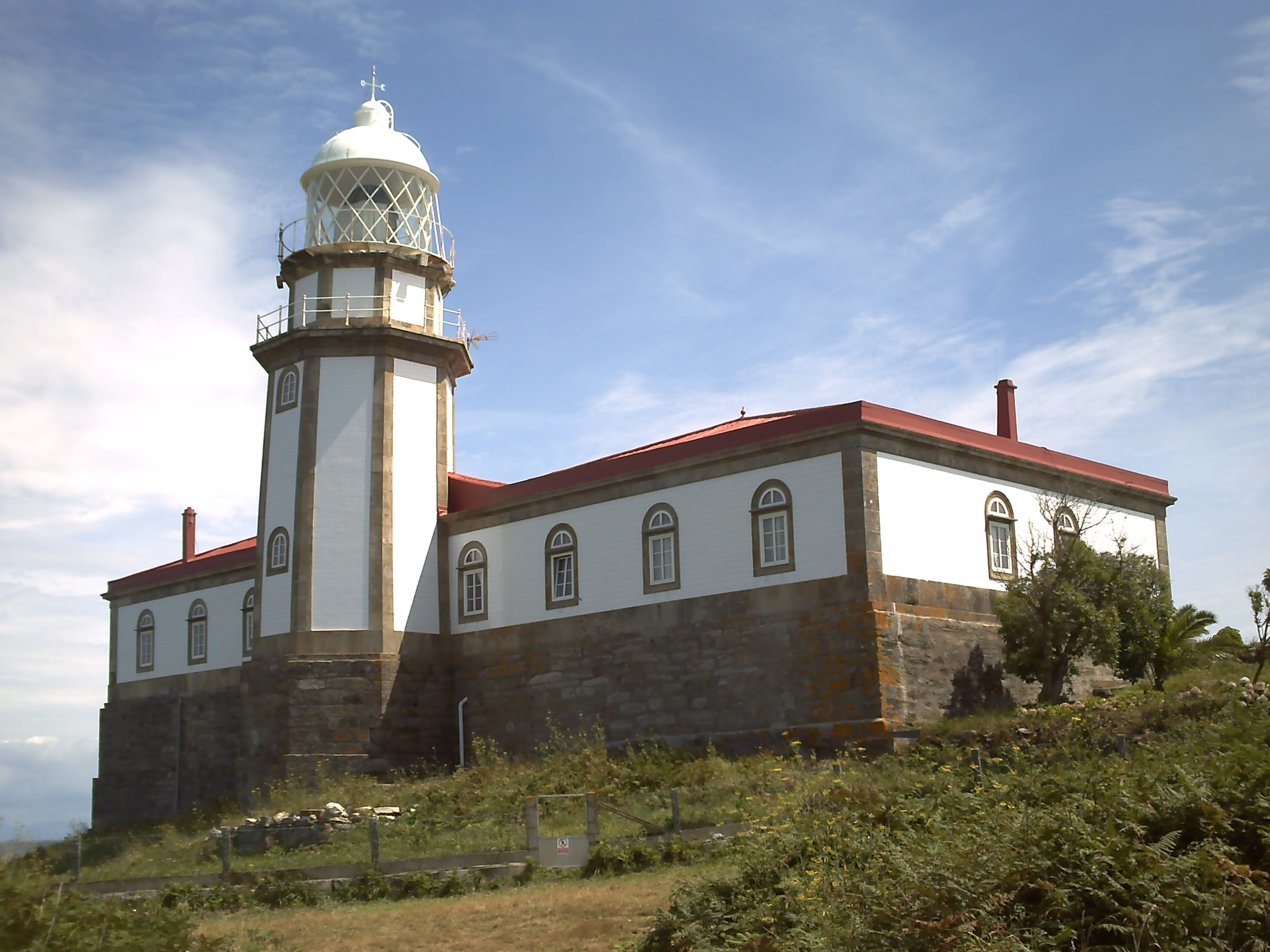 Lighthouse in Ons Island (Pontevedra, Spain)